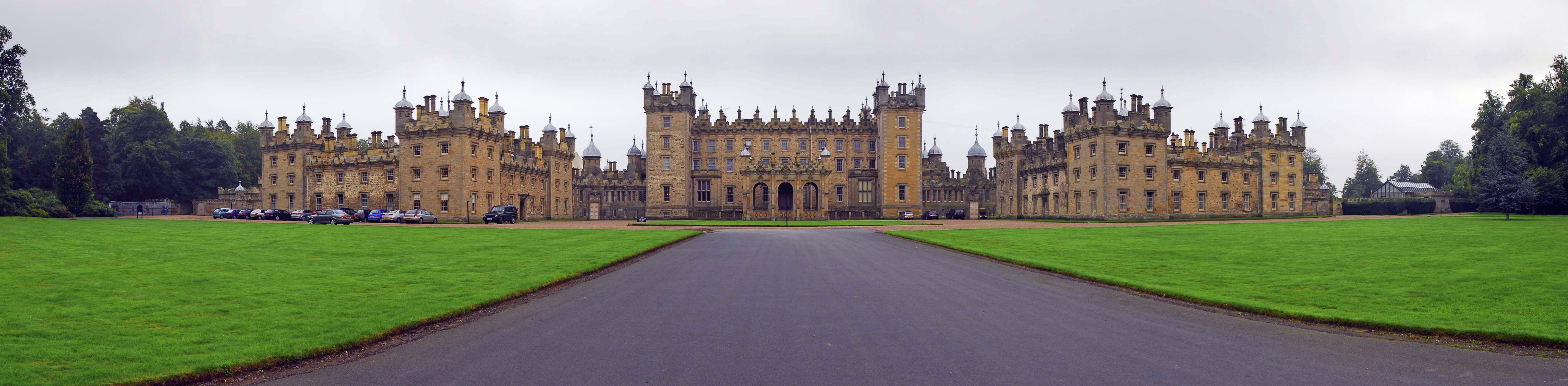 Panorama of Floors Castle, Scotland